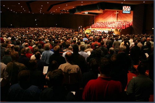 Grace Community Church Sun Valley Worship